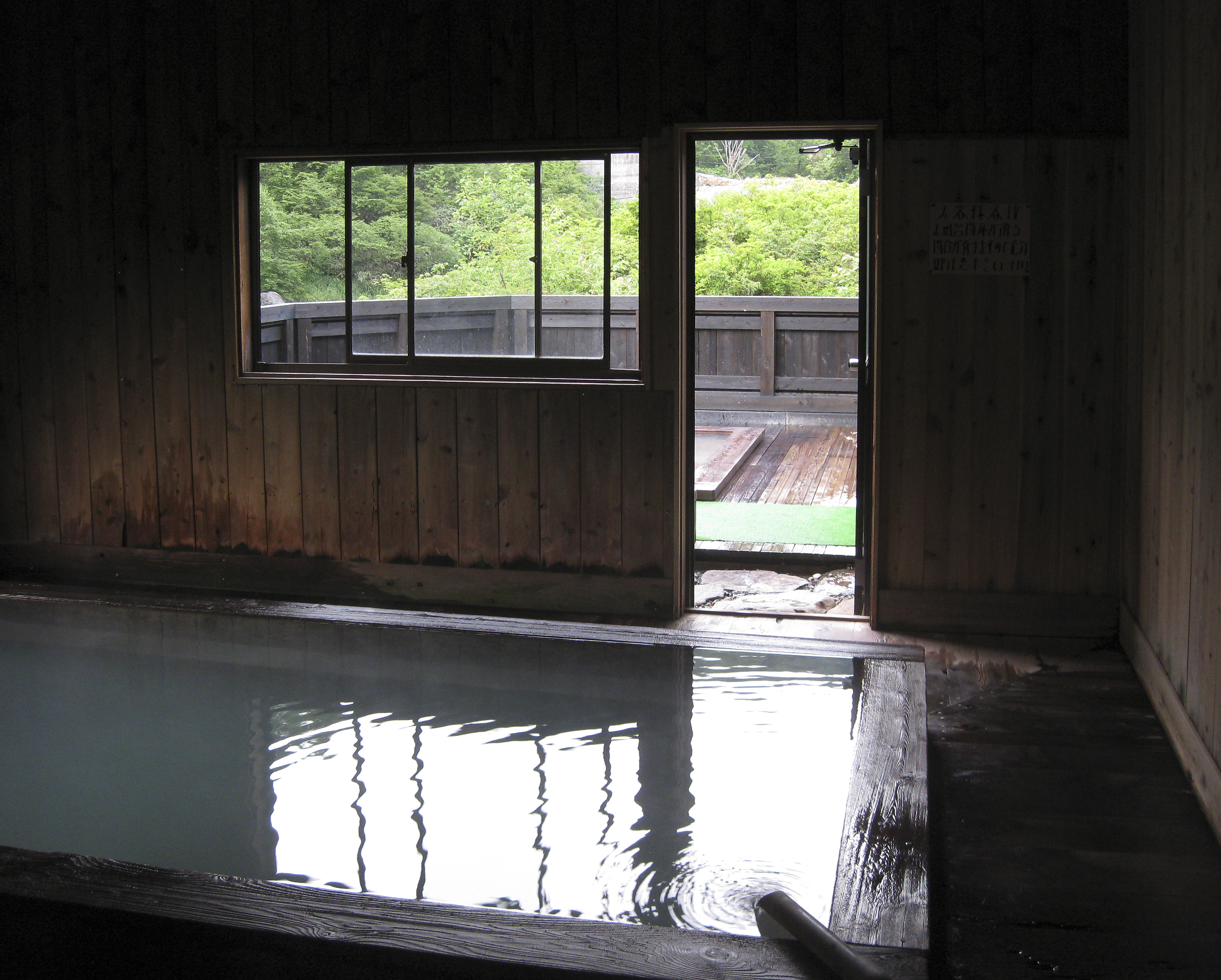 Kuroyu Onsen's inner bath.